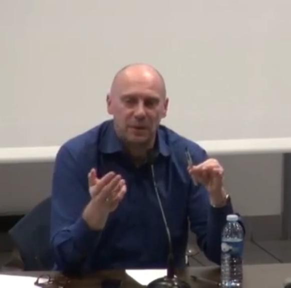 Alain Soral